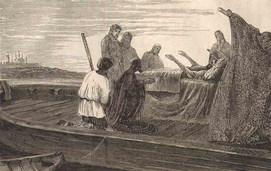 Death of patriarch Nikon